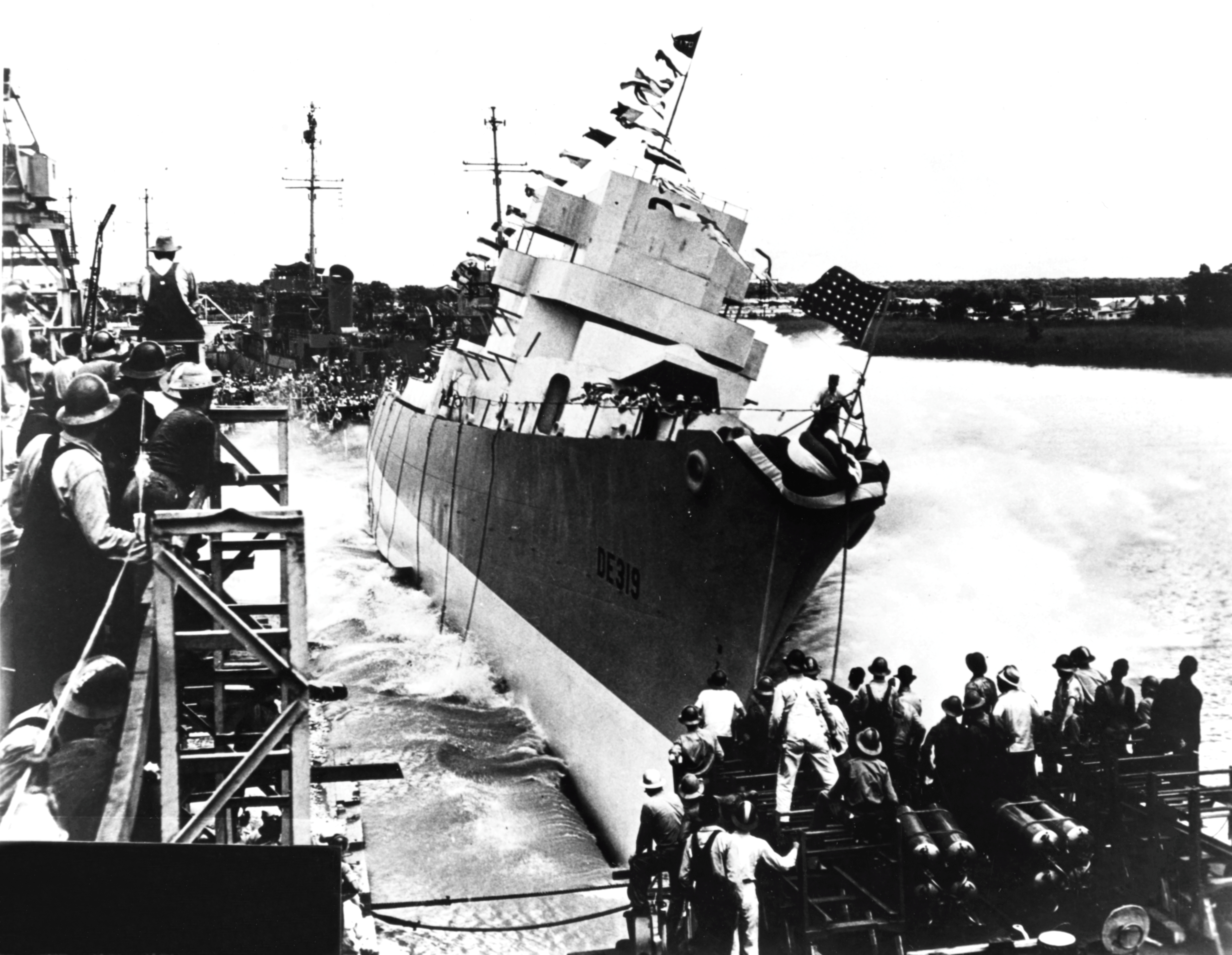 Launching of the U.S. Navy destroyer escort USS Leopold (DE-319) at the Consolidated Steel Corporation shipyard, Orange, Texas (USA), on 12 June 1943.